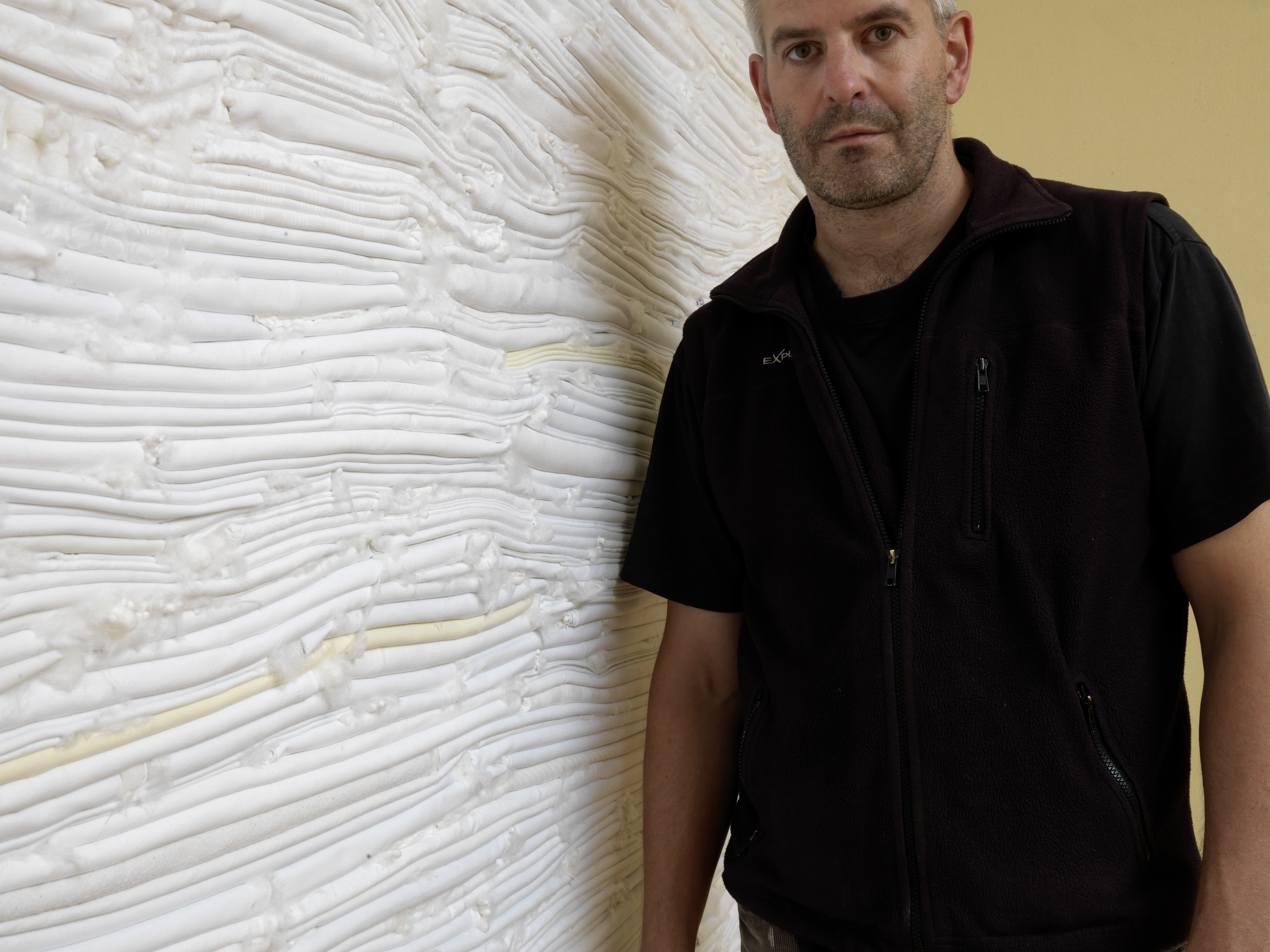 Thomas Rentmeister